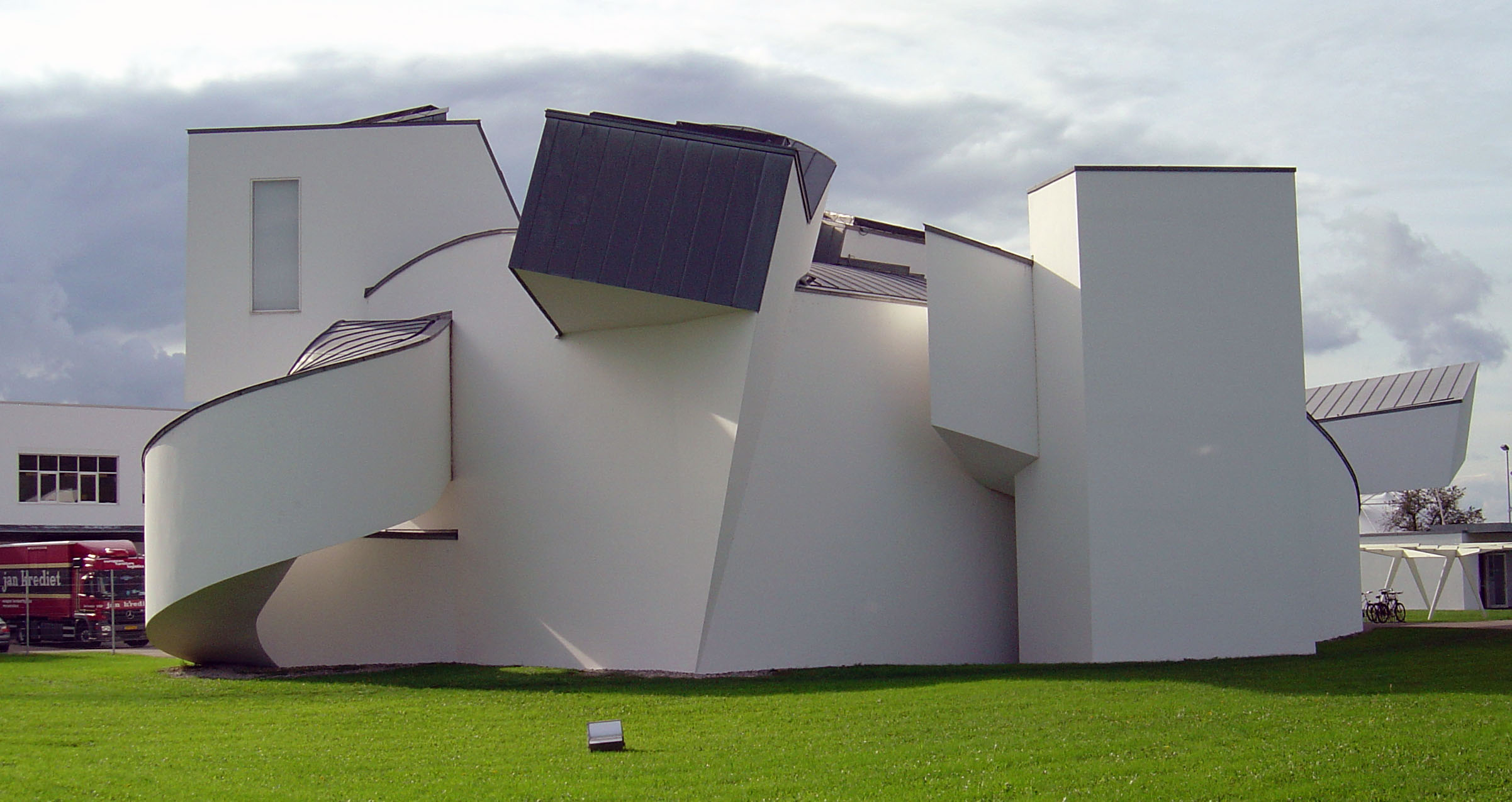 Vitra Design Museum building by Frank O. Gehry, Weil am Rhein, Germany. In the background, part of the factory building also by Gehry is visible.